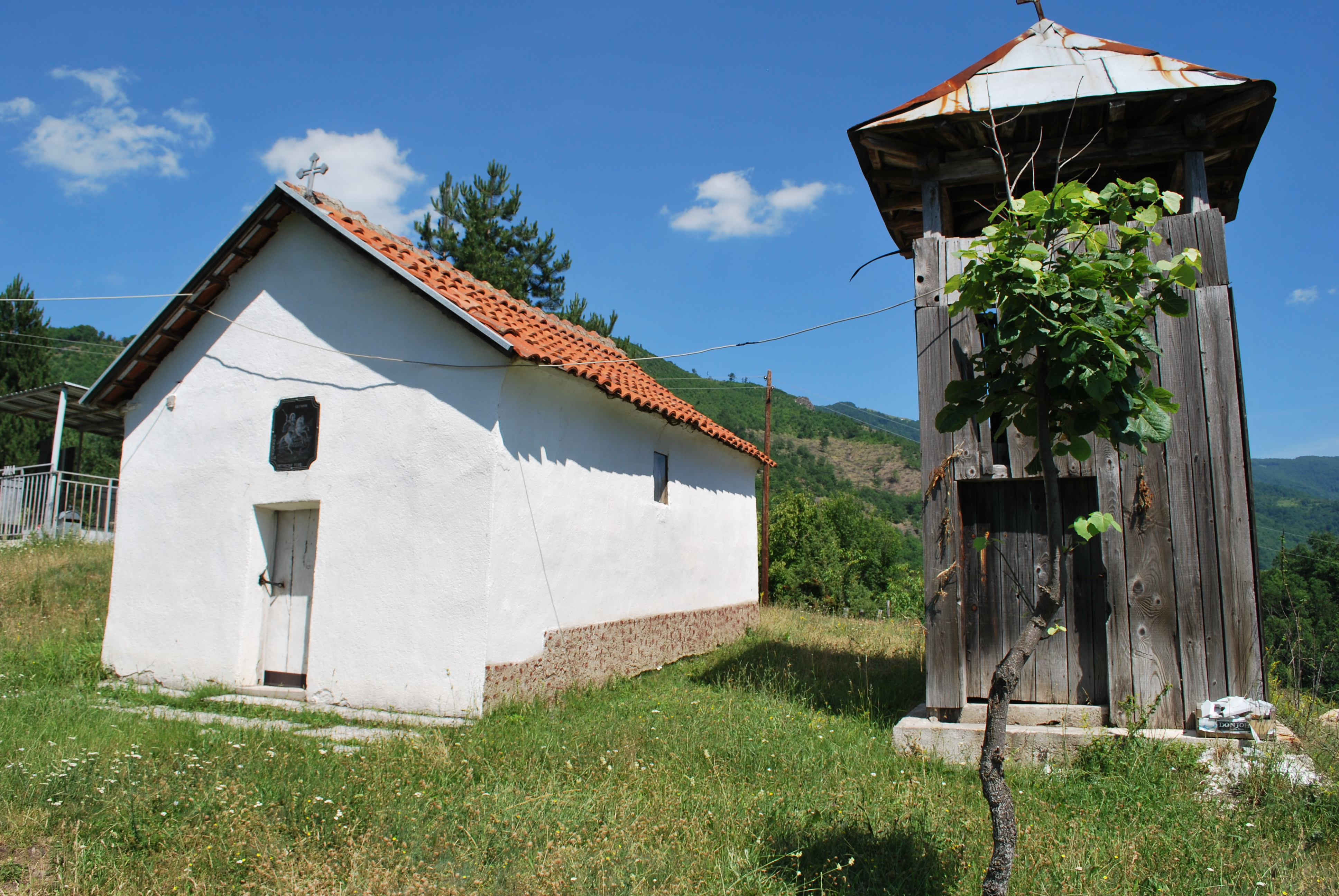 St. George Church in Železna Reka near Gostivar, Macedonia